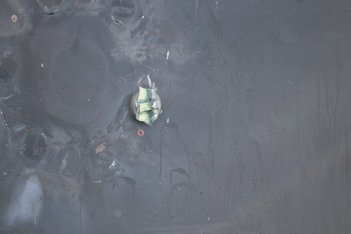 Magnet attached to the hull of the Kokuka Courageous after the, allegedly part of an Iranian limpet mine.